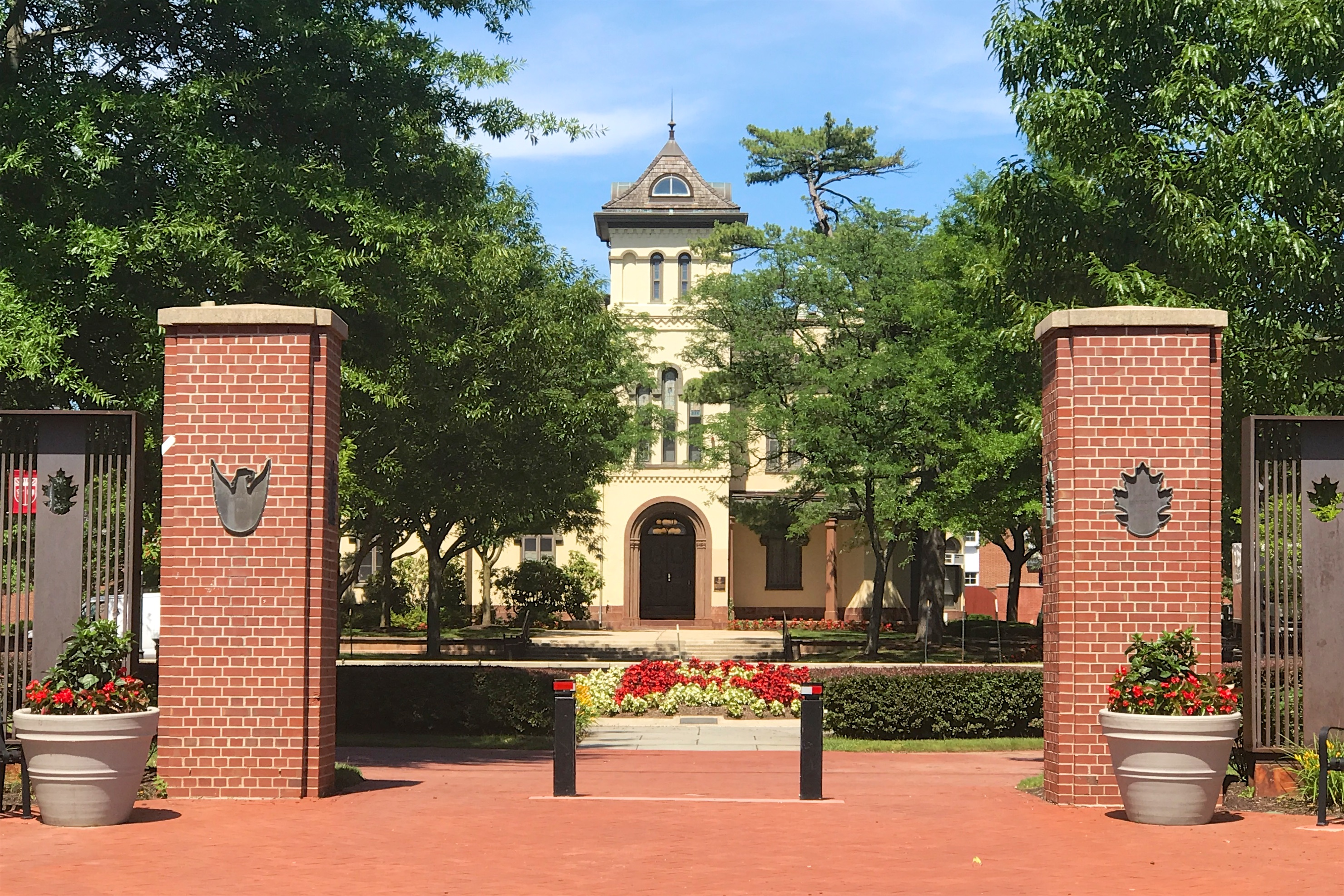 Campus gate leading to the Bishop House in New Brunswick, New Jersey on the campus of Rutgers University.